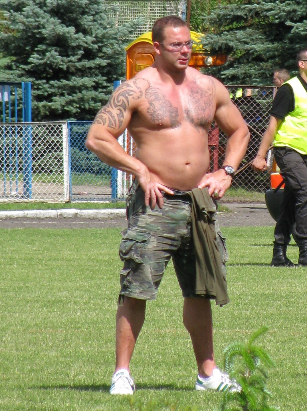 Florian Trimpl - a strength athlete from Germany